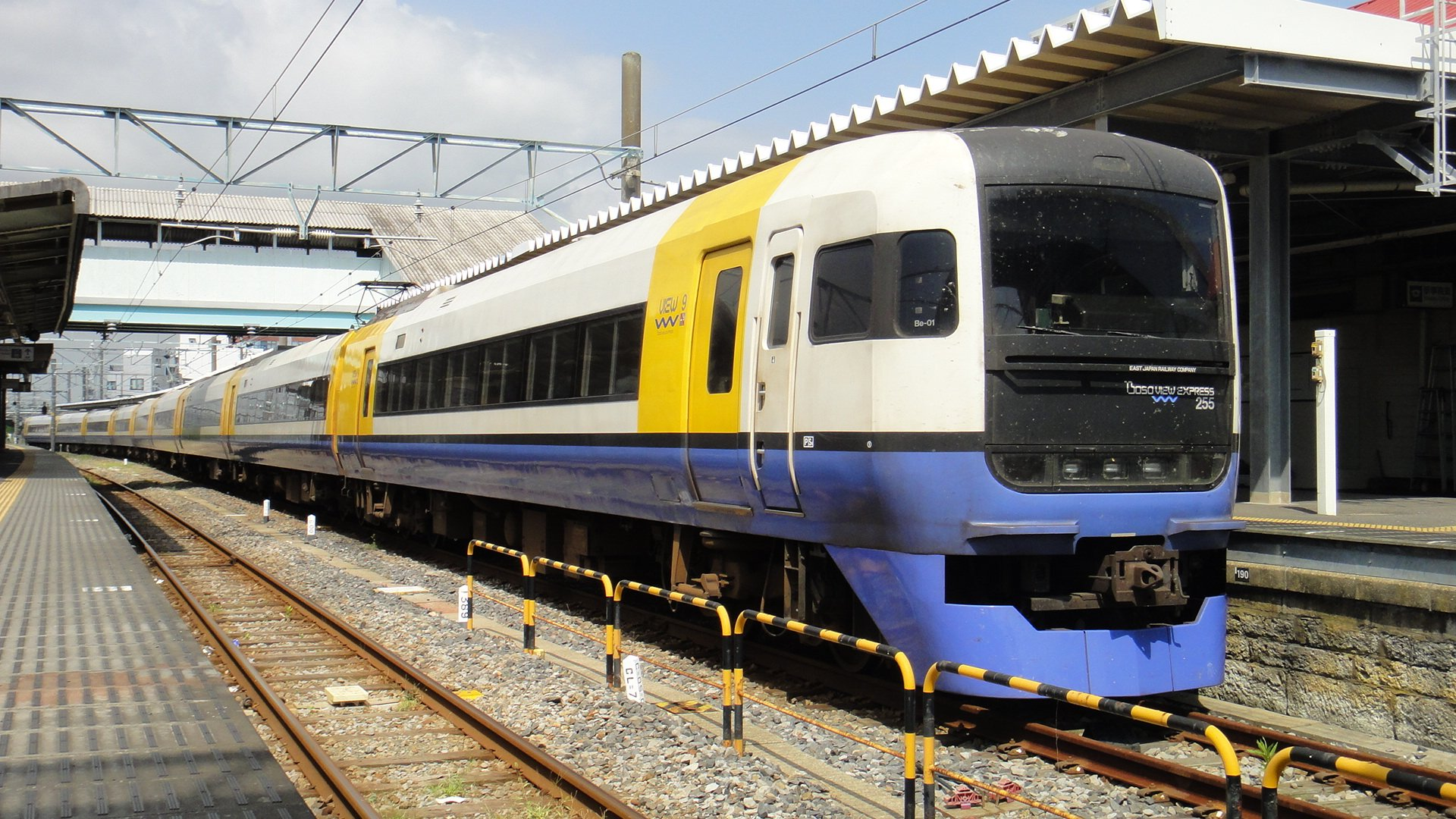 A JR East 255 series EMU at Choshi Station after arriving on a Shiosai limited express service from Tokyo